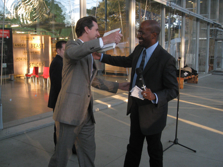 San Francisco Mayor Gavin Newsom and Van Jones at The Green Collar Economy book signing, San Francisco, CA. 10/14